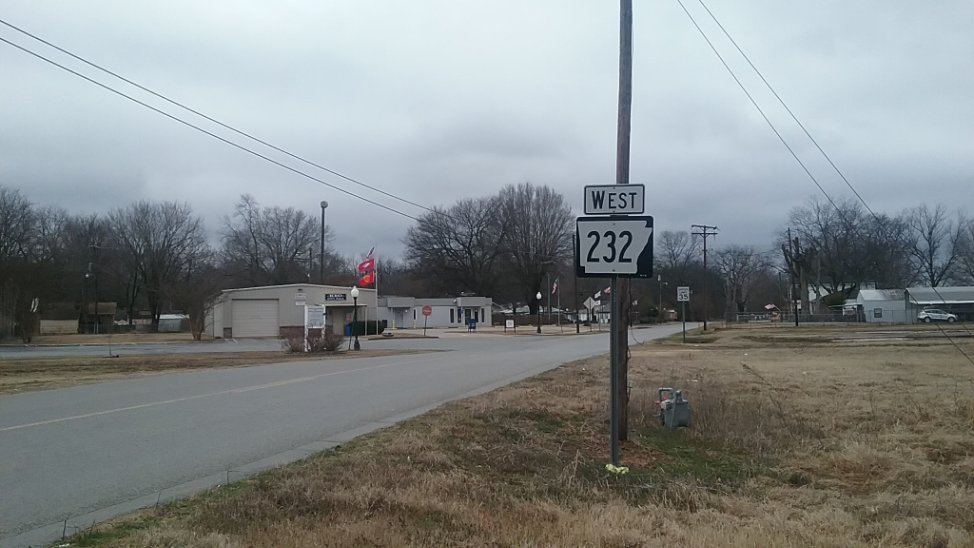 Photo taken in Keo, Arkansas. February 10, 2018.